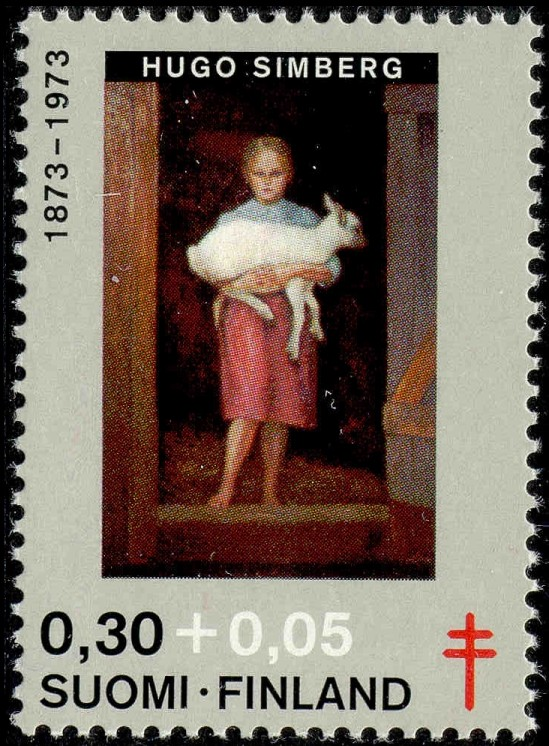 Postage stamp depicting a painting by the Finnish artist Hugo Simberg